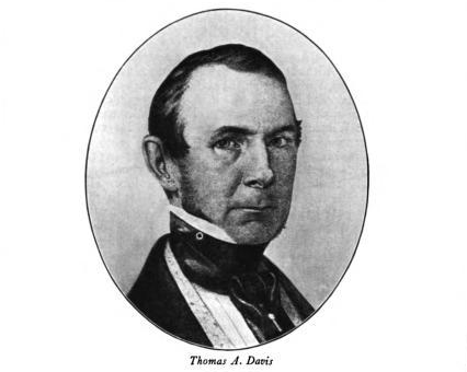 Mayors of Boston: An Illustrated Epitome of who the Mayors Have Been and What they Have Done, Boston, MA: State Street Trust Company, 1914